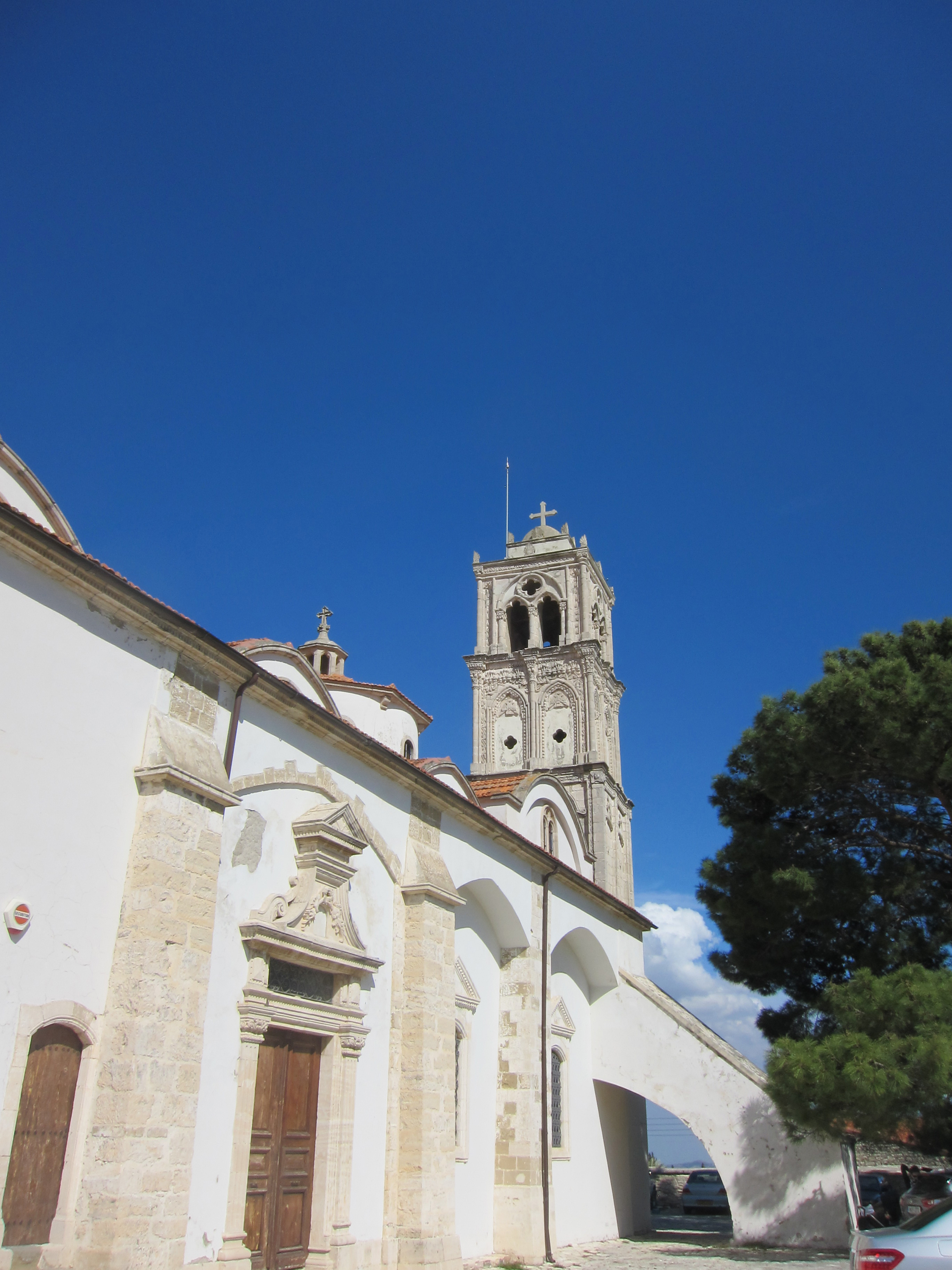 Church of the Holy Cross at Lefkara, Cyprus